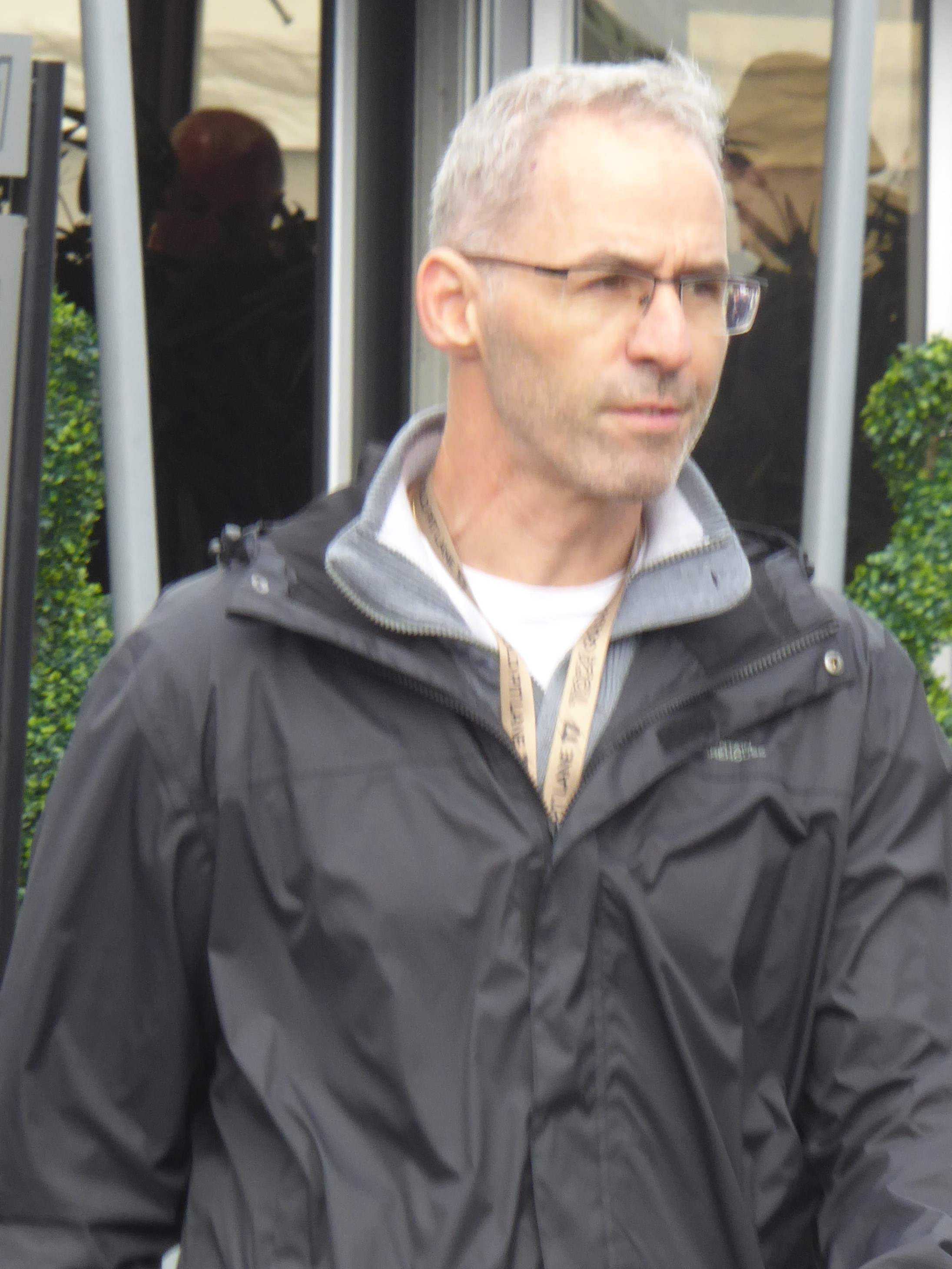 Two-time champion Alain Menu, at the Knockhill round of the 2017 British Touring Car Championship.